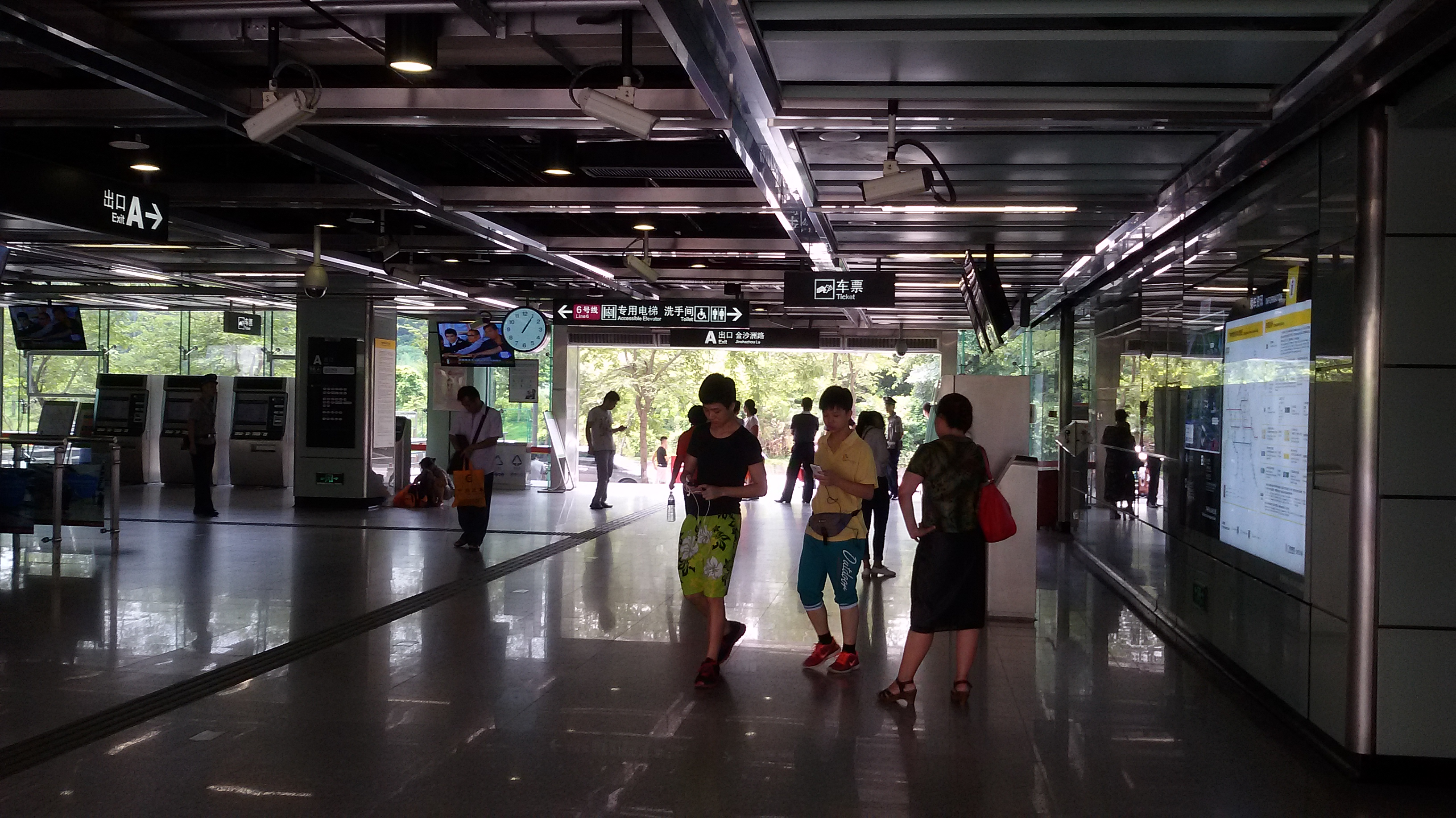 Station Concourse for Line 6 in Xunfenggang Station, Guangzhou Metro. 粵語: 廣州地鐵，潯峰崗站嘅6號綫站廳。